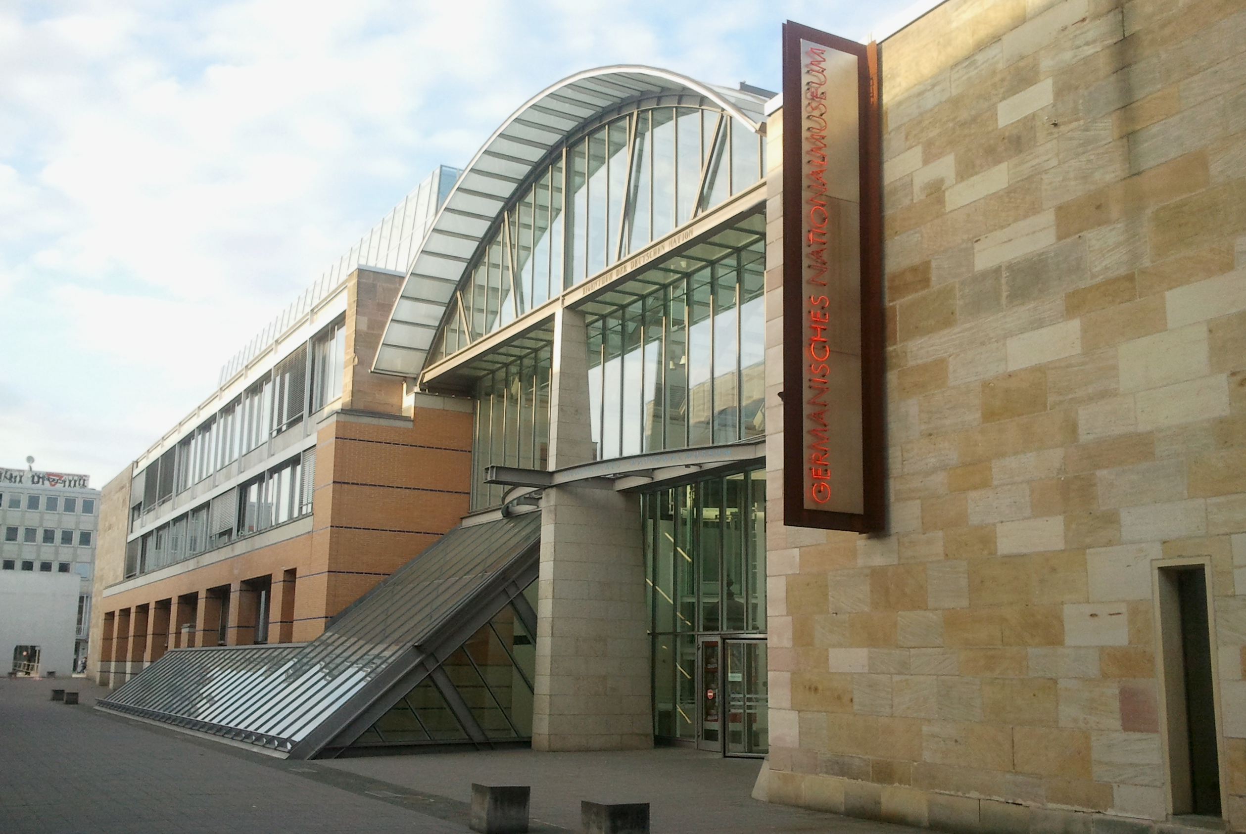 Main entrance of the Germanisches Nationalmuseum (Germanic National Museum) in Nuremberg, May 2011.